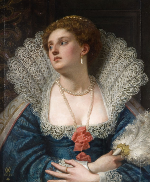 Amy Robsart